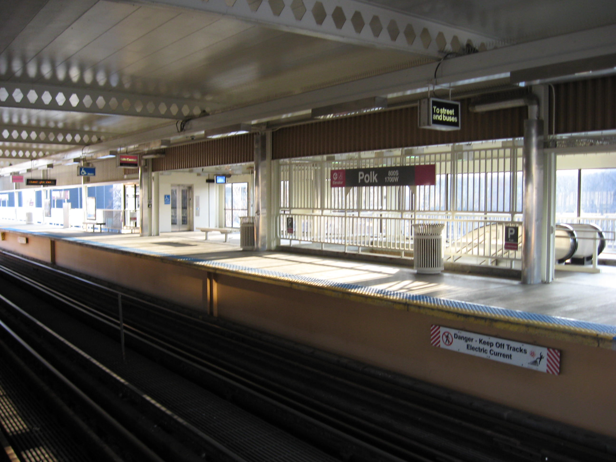 Polk CTA Station